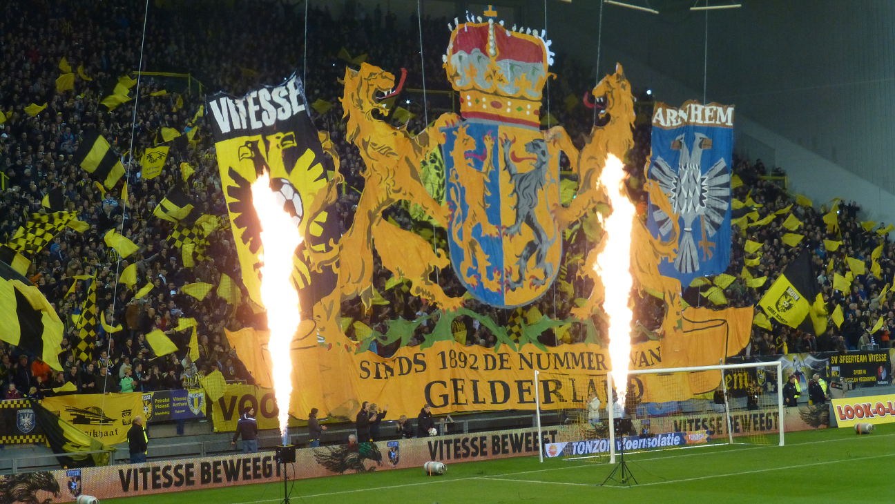 Gelredome shortly before kickoff of the derby Vitesse vs. NEC